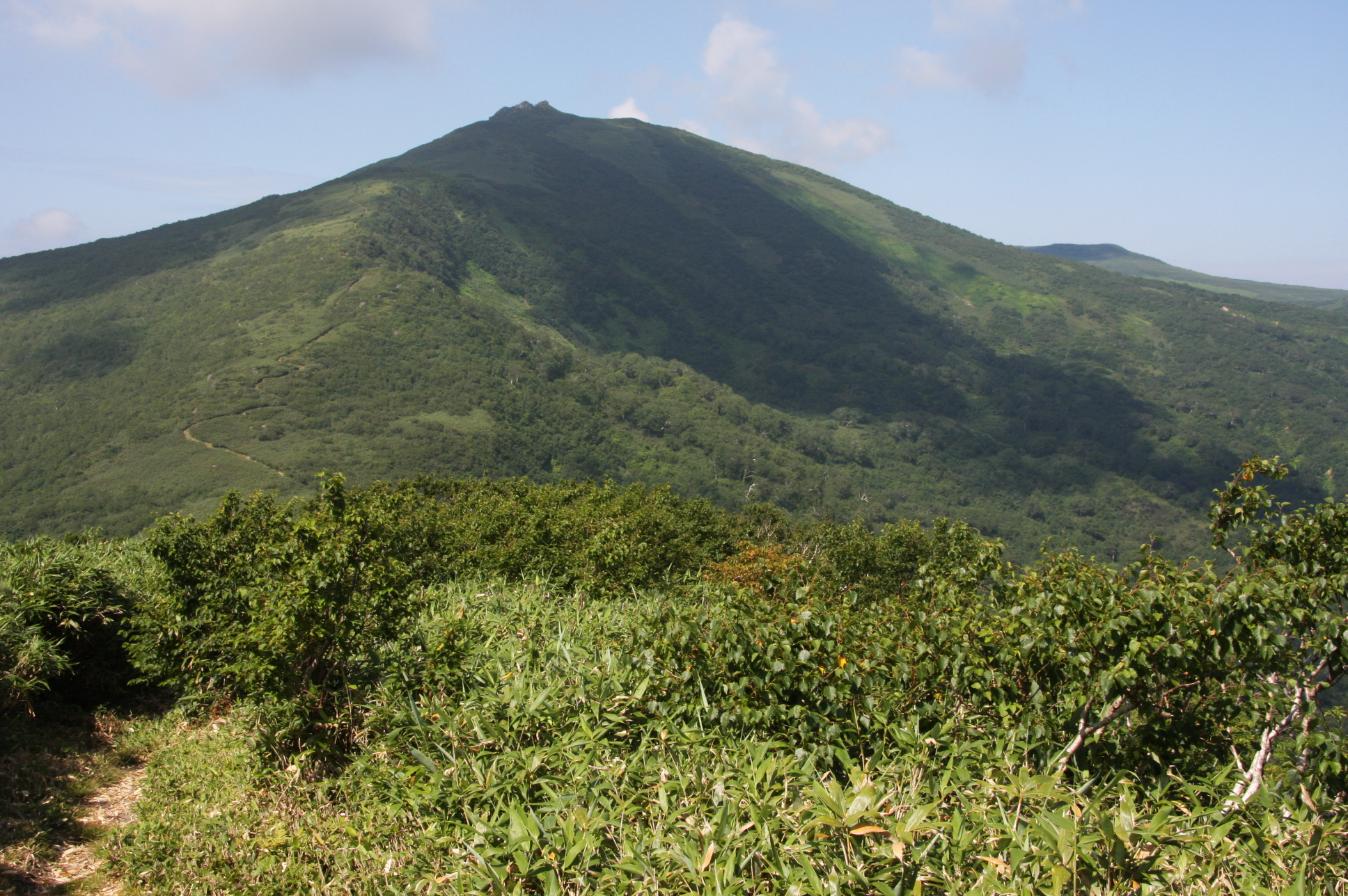 Mount Mekunnai (Mekunnaidake) as seen from Mount Chise